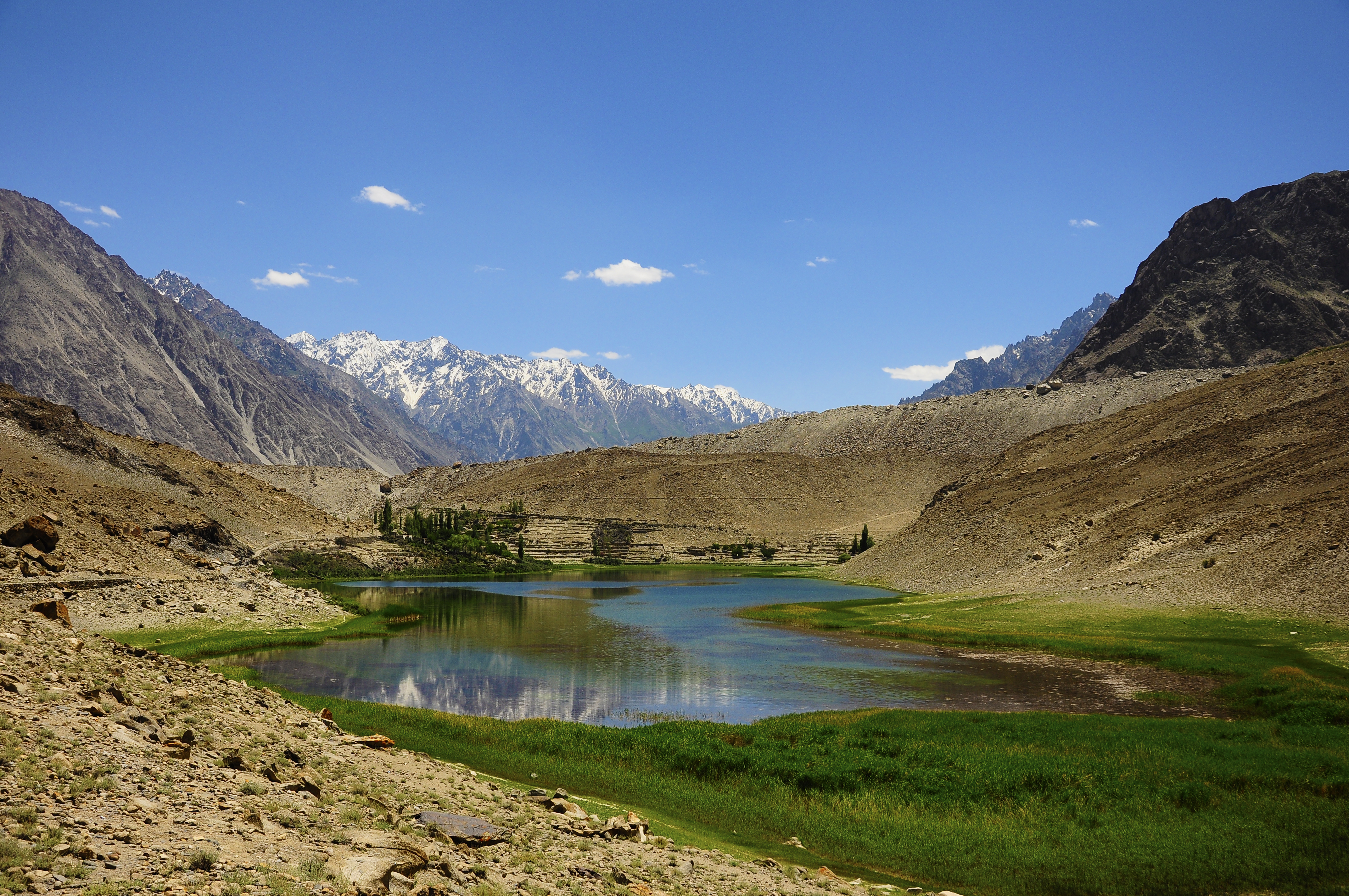 Borith Lake in Hunza Valley near Ghulkin after ATA ABAD LAKE. one of the most amaizing n mysterious place i have every been to.... it was a place full of feel.... like telling its story.. changing its colours through out the whole day...